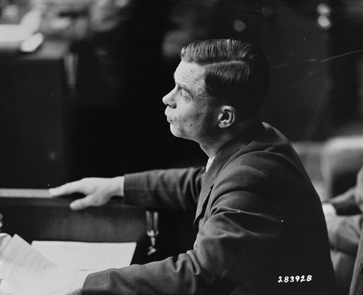 Defendant Dr. Siegfried Ruff on the first day of his testimony in his own defense at the Doctors Trial.